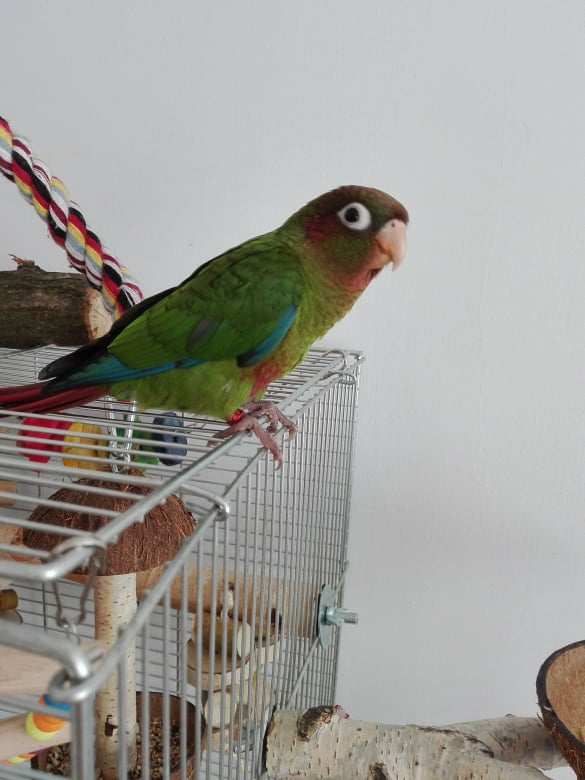 Young rose-crowned parakeet in capitivity